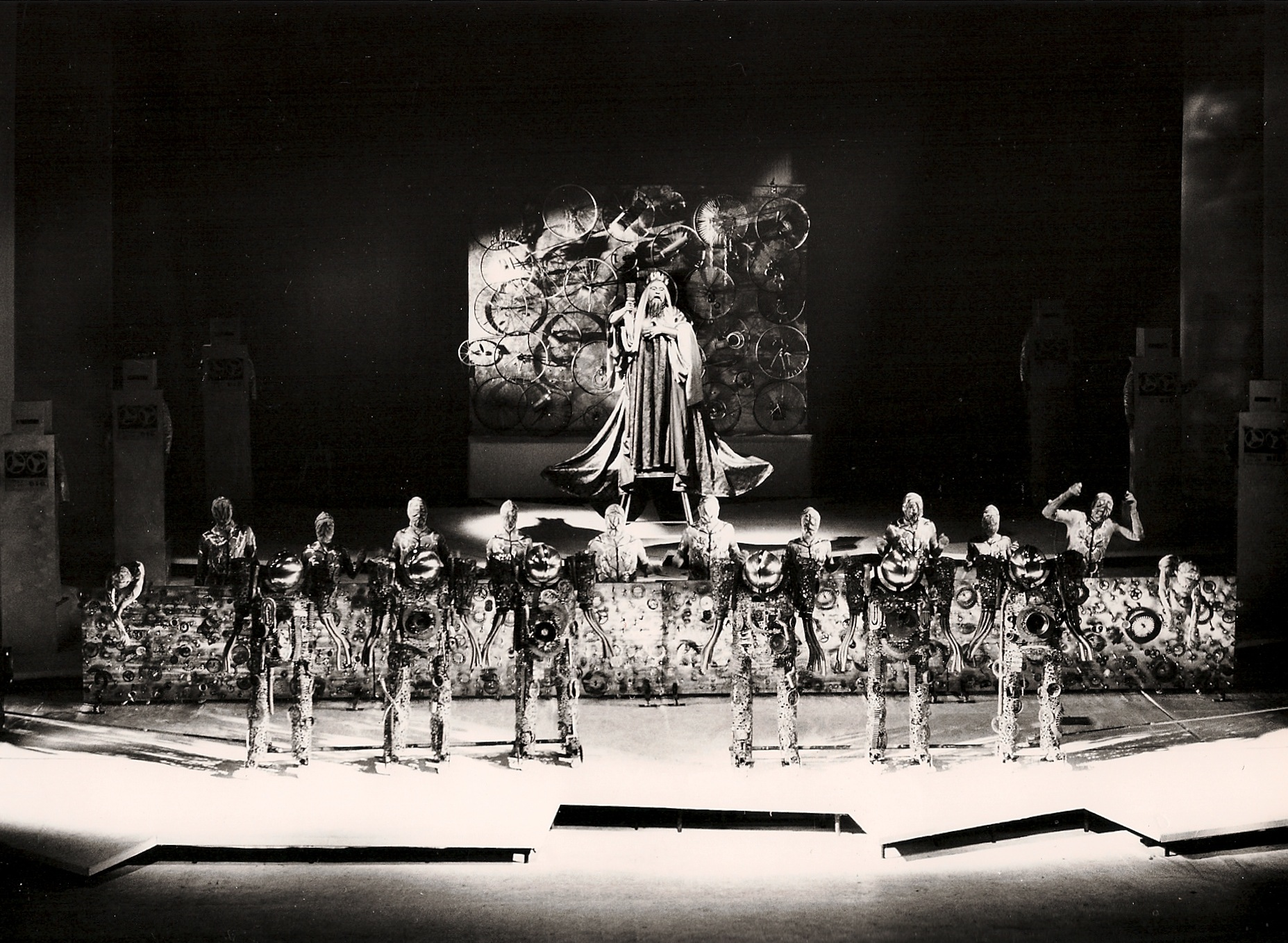 Sound Art, Art, Kieselbach